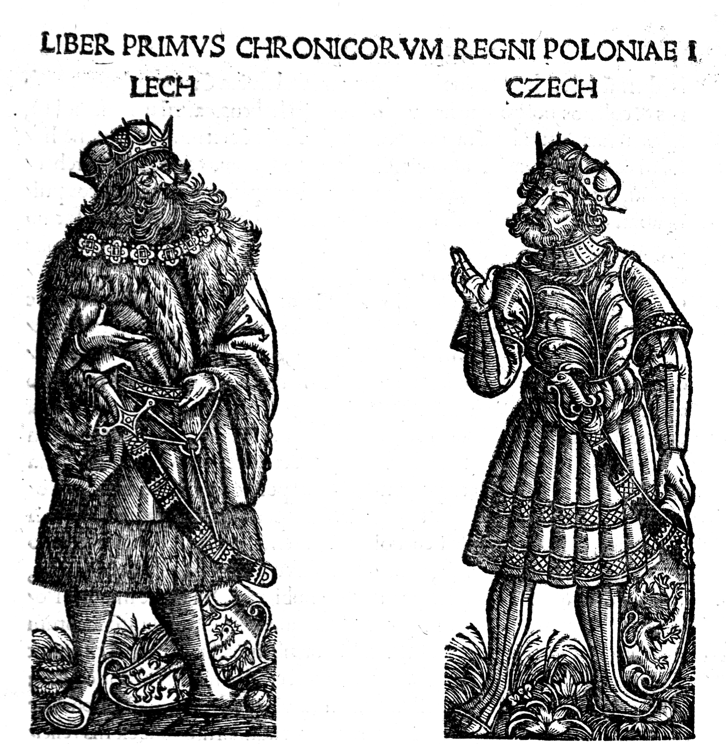 Illustration from Chronica Polonorum